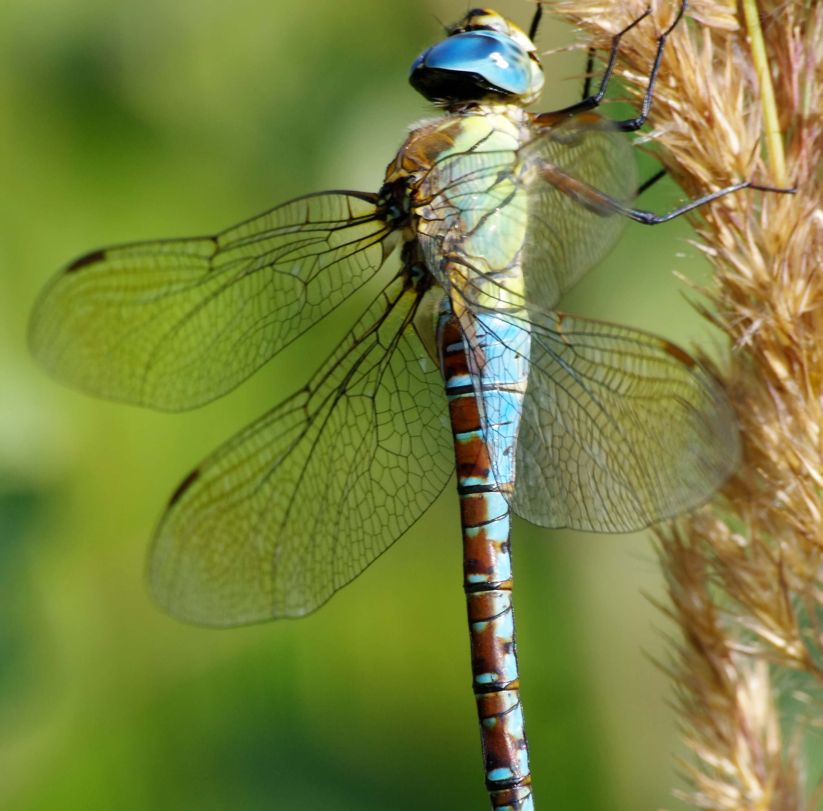 The dragonfly Blue-eyed Hawker (= Southern Migrant Hawker), Aeshna affinis. This is a female in the rare blue (male-coloured) form. Sorry for the poor image quality.